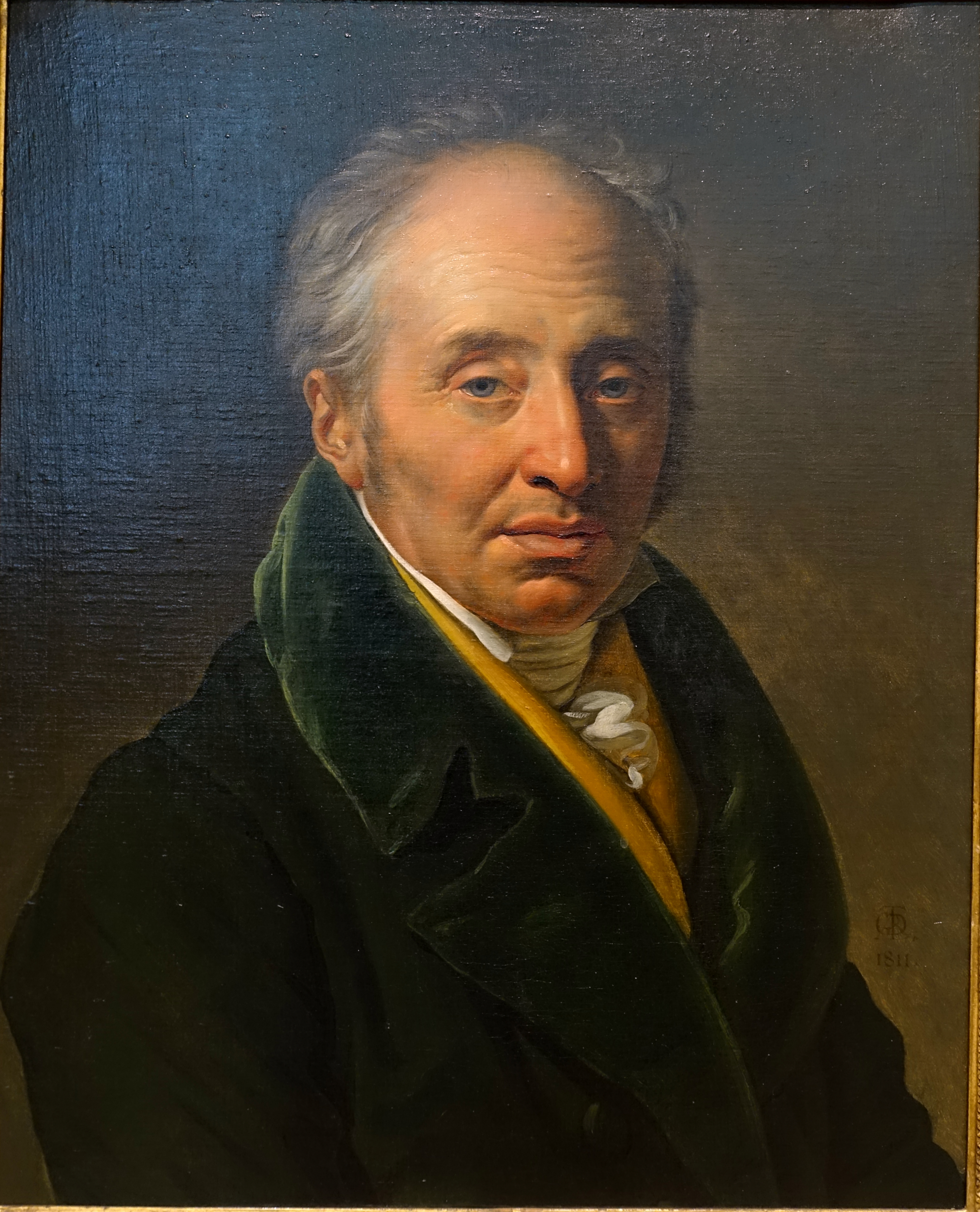 Exhibit in the Dallas Museum of Art, Dallas, Texas, USA.